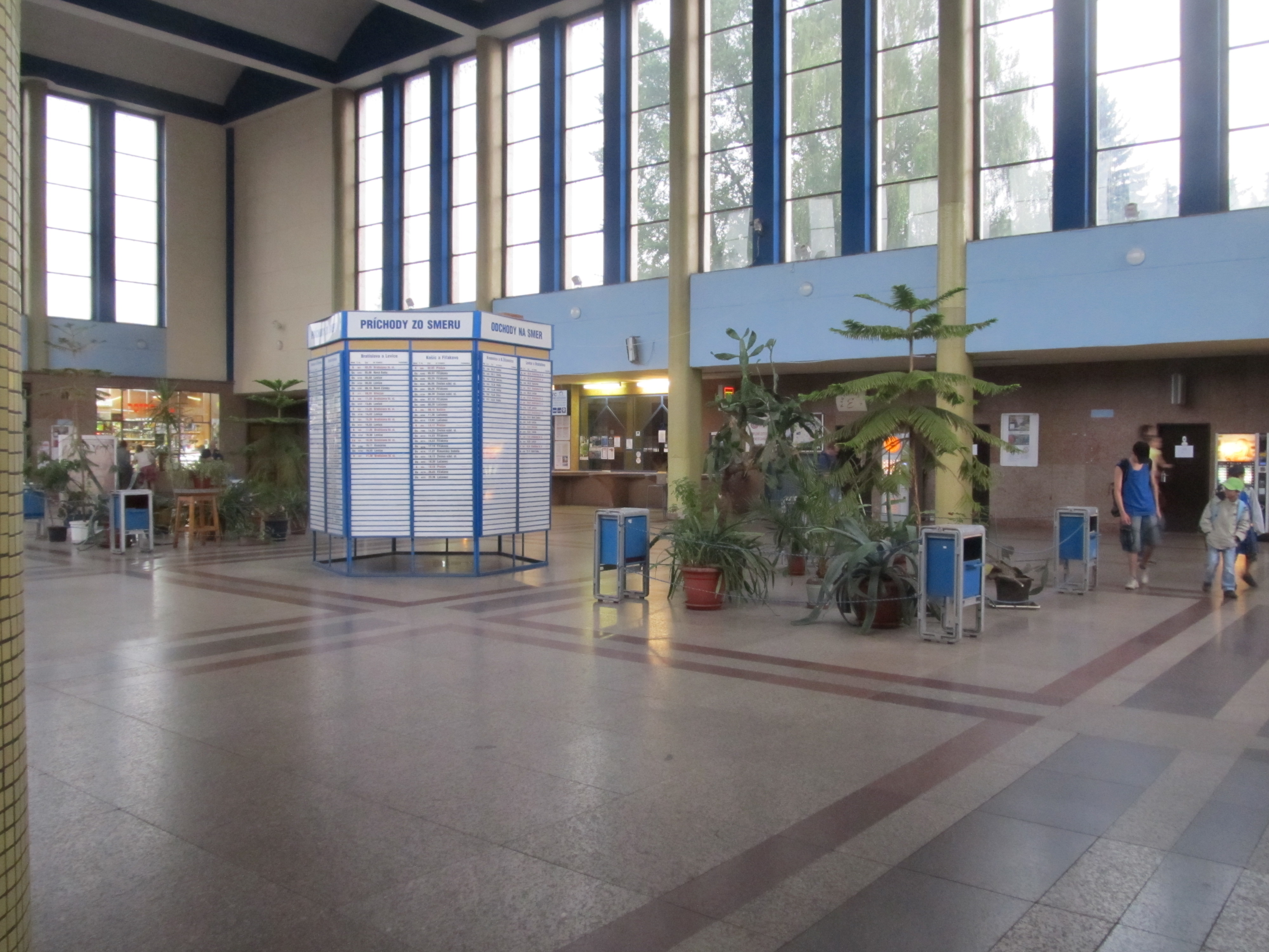 Concourse of Zvolen railway station, Slovakia